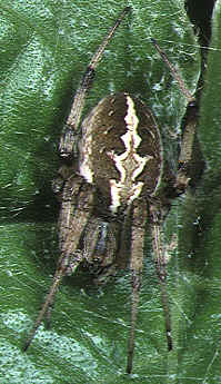 female Neoscona theisi from Okinawa.